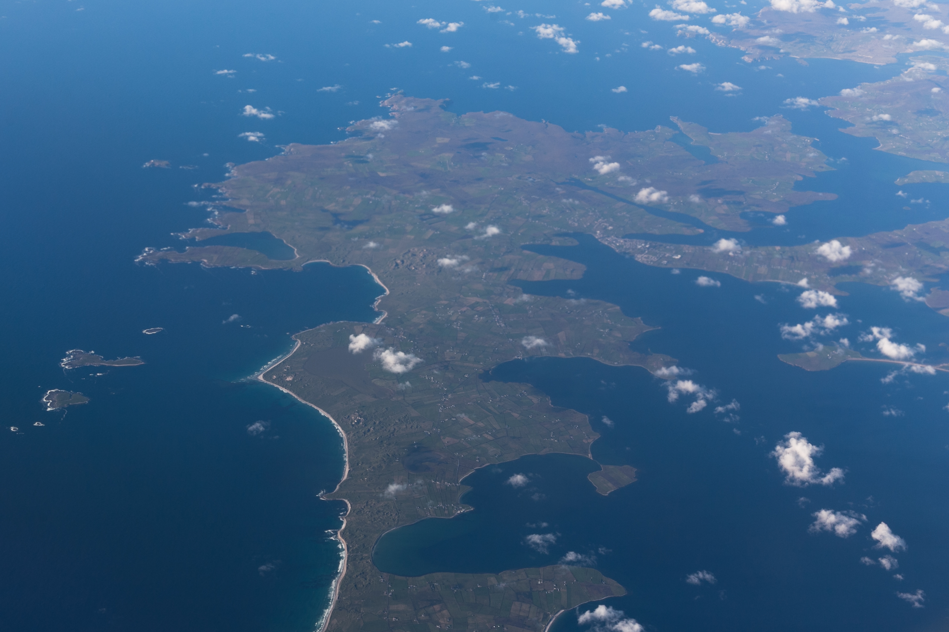 Aerial view of Mullet Peninsula during a flight between CDG and YUL.